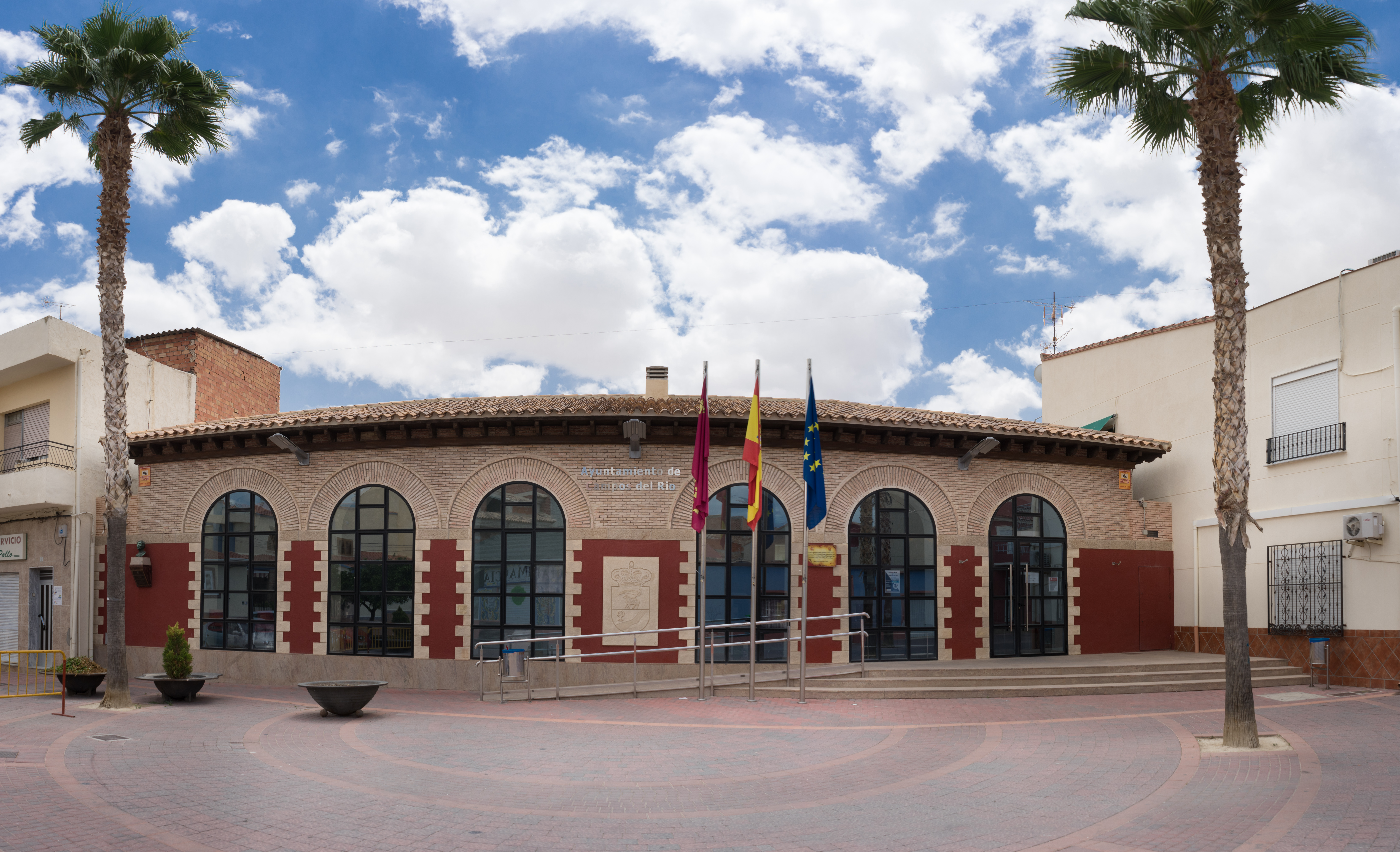 Town Hall in Campos del Río